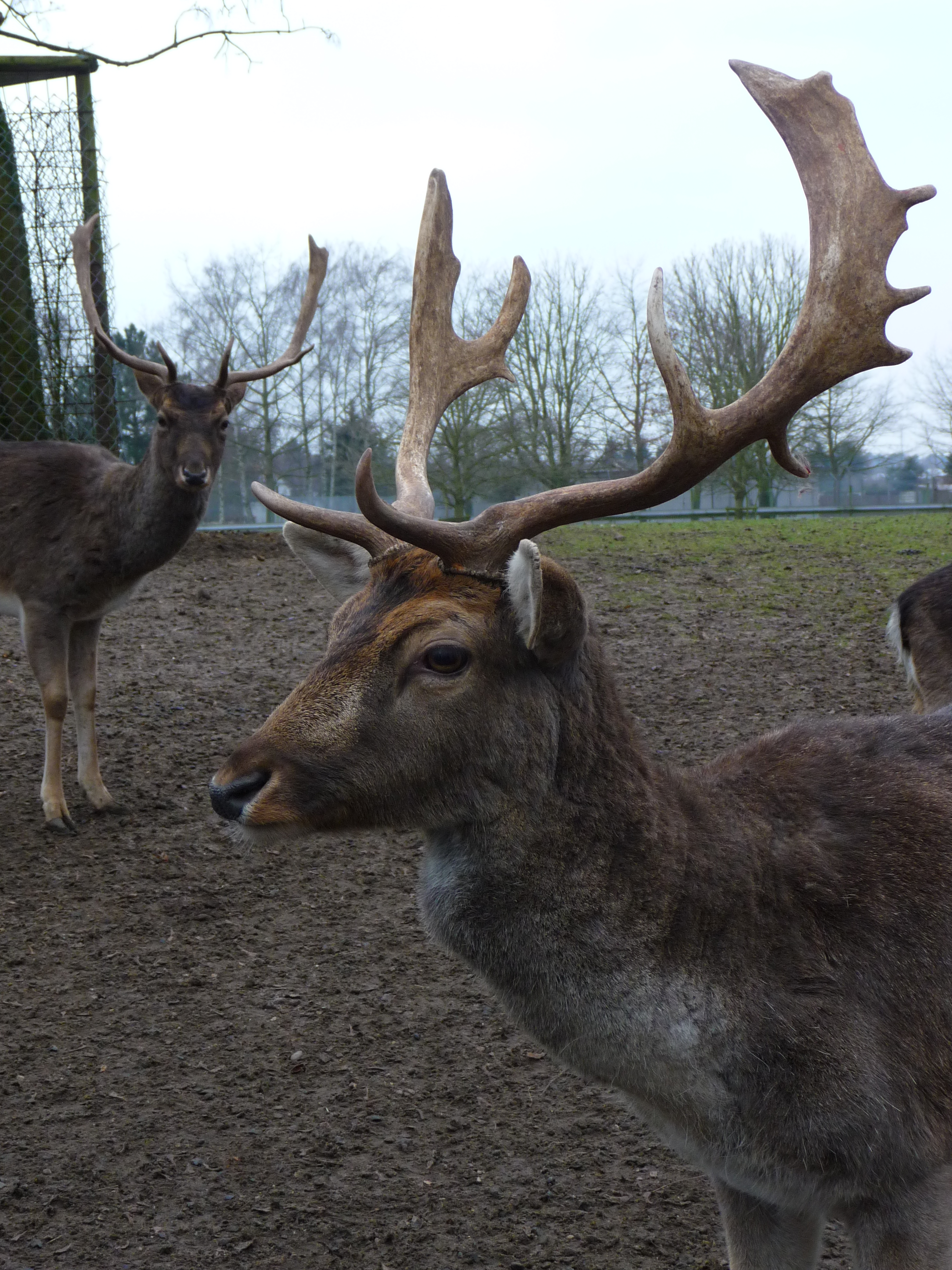 Fallow Deers (Dama dama), male and females in winter coat (Baden-Württemberg, Germany)